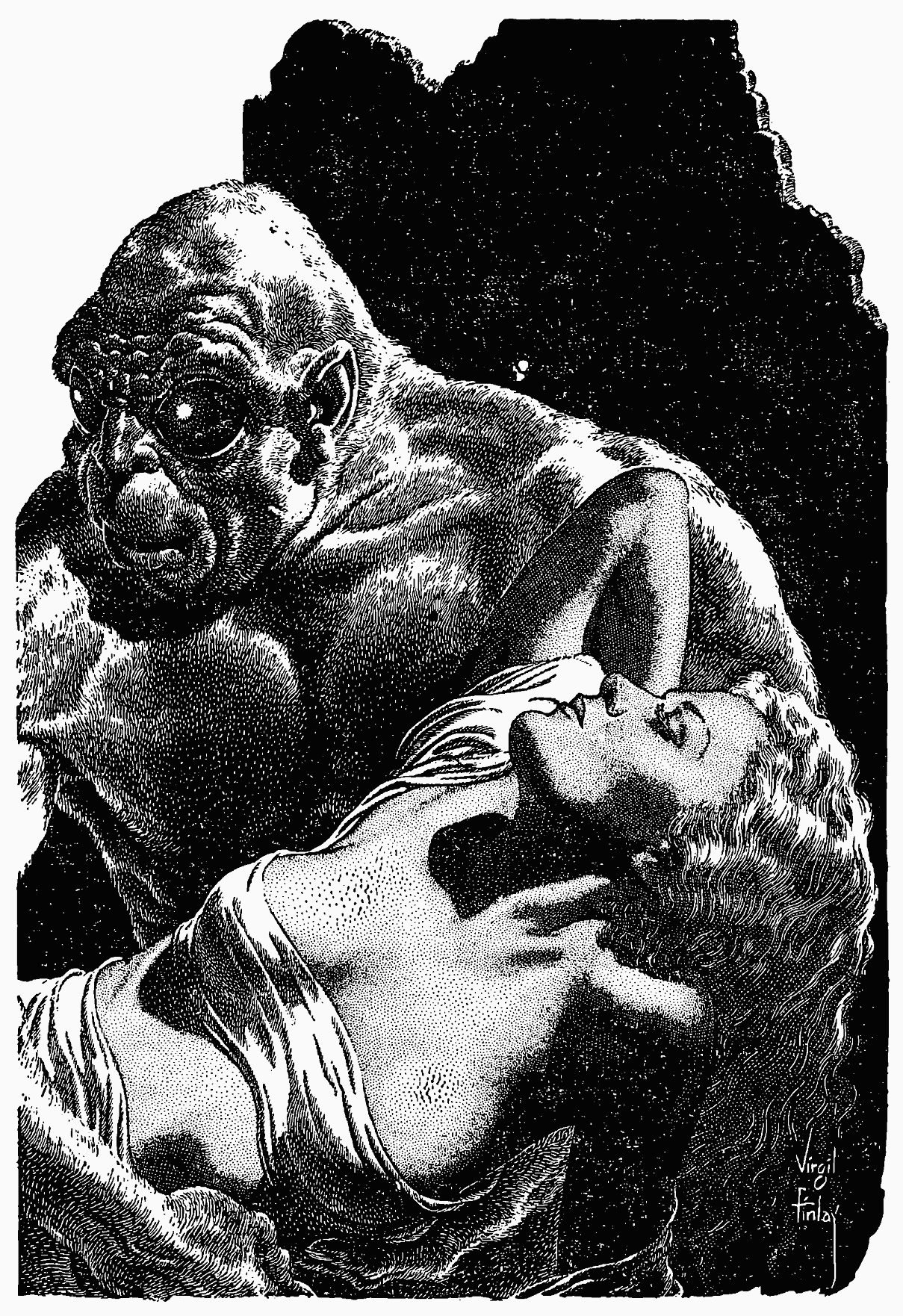 Ilustration by Virgil Finlay from H.G. Wells' novel "The Time Machine", published in the magazine Famous Fantastic Mysteries; August 1950. Orginal caption / Oryginalny podpis